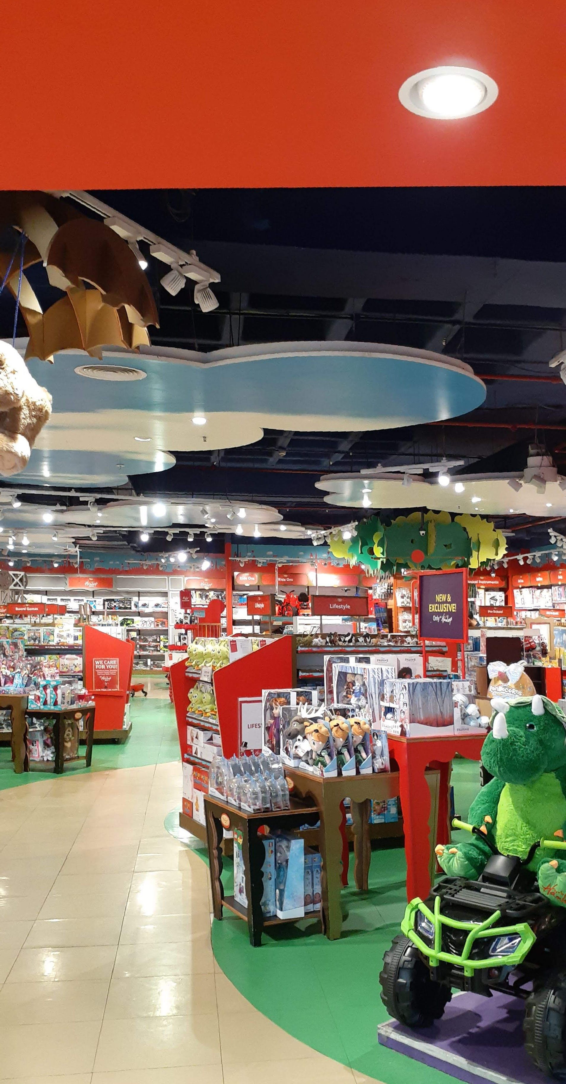 World class Toys @ 'Hamleys' Toy shop, @ FORUM VIJAYA, Chennai, Tamil Nadu, India.